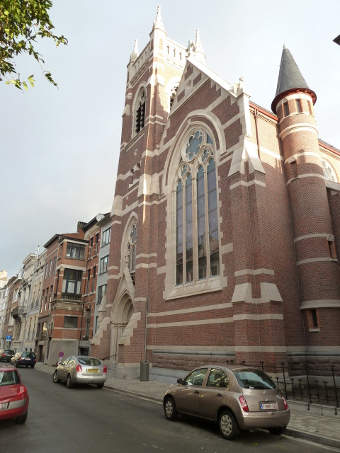 The exterior of St Boniface Anglican Church, Antwerp